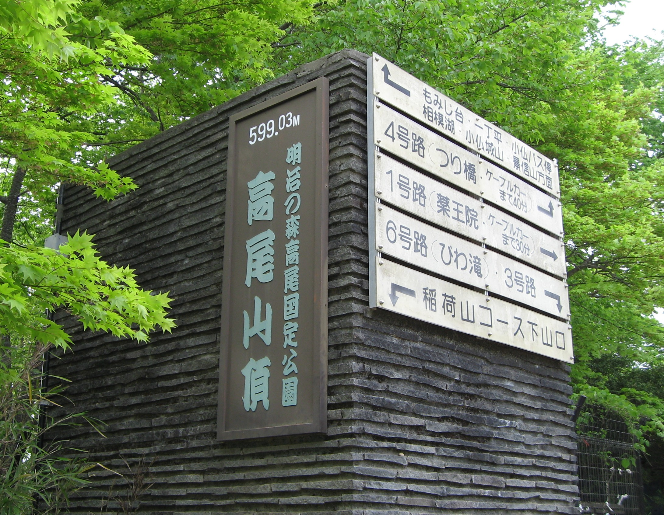 Sign of Summit of Mt. Takao in Hachioji, Tokyo, Japan.